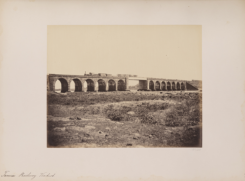 Title: Tanna Railway Viaduct Creator: William Johnson Date: ca. 1855-1862 Part Of: Photographs of Western India Place: Thane, Maharashtra, India Physical Description: 1 photographic print: albumen; 20 x 26 cm on 35 x 42 cm mount File: vault_ag2002_1407x_2_150_tanna_opt.jpg Rights: Please cite Southern Methodist University, Central University Libraries, DeGolyer Library when using this image file. A high-quality version of this file may be obtained for a fee by contacting . For more information and to view the image in high resolution, see: View Europe, India, and Asia: Photographs, Manuscripts, and Imprints